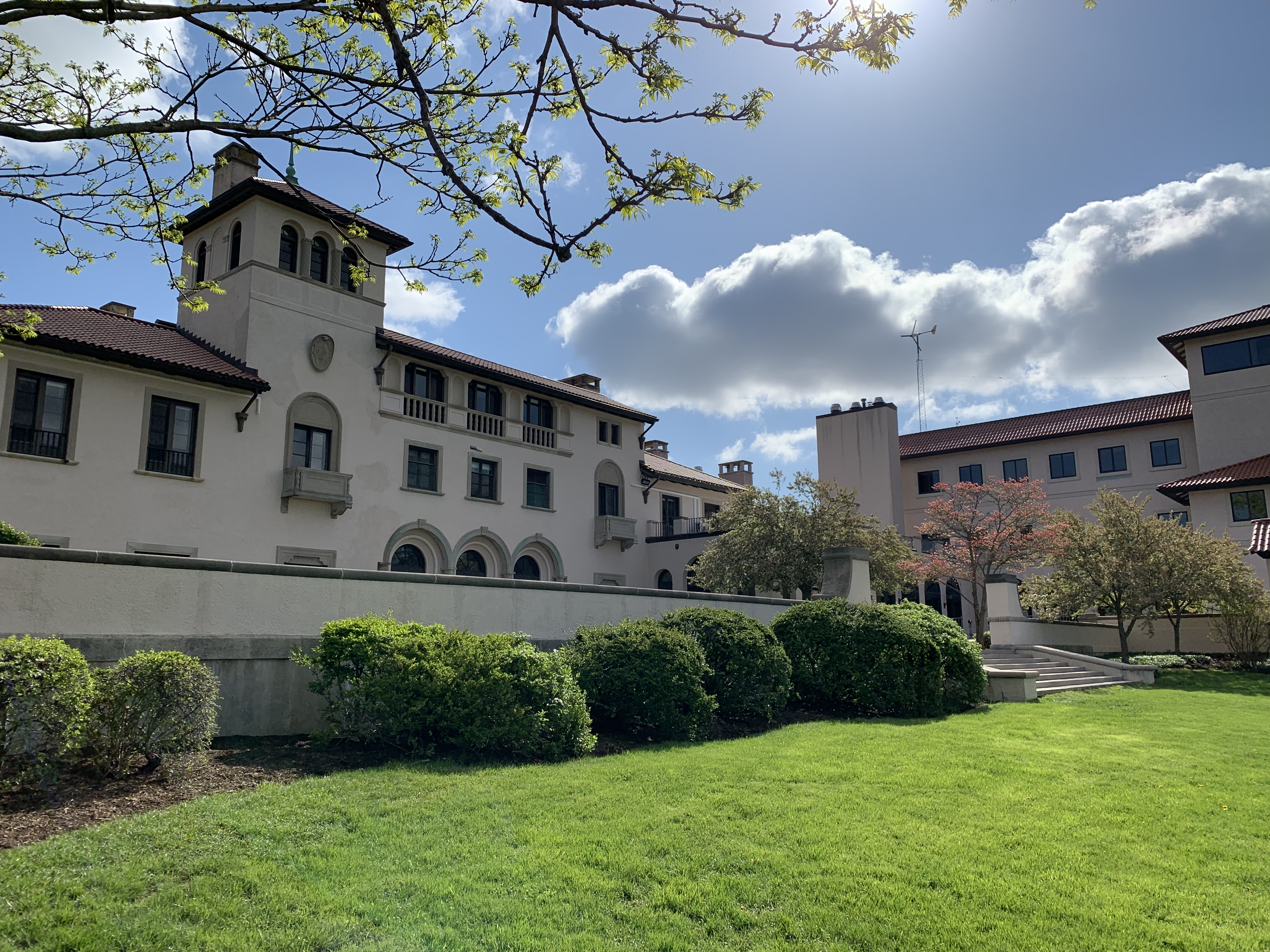 This is an image of one of the main buildings on the campus of the Dexter Southfield School in Brookline, Massachusetts.